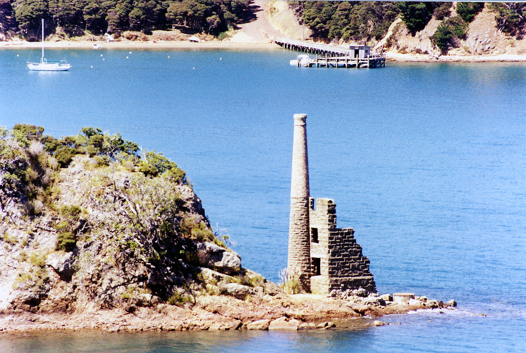 Mansion House, Kawau Island